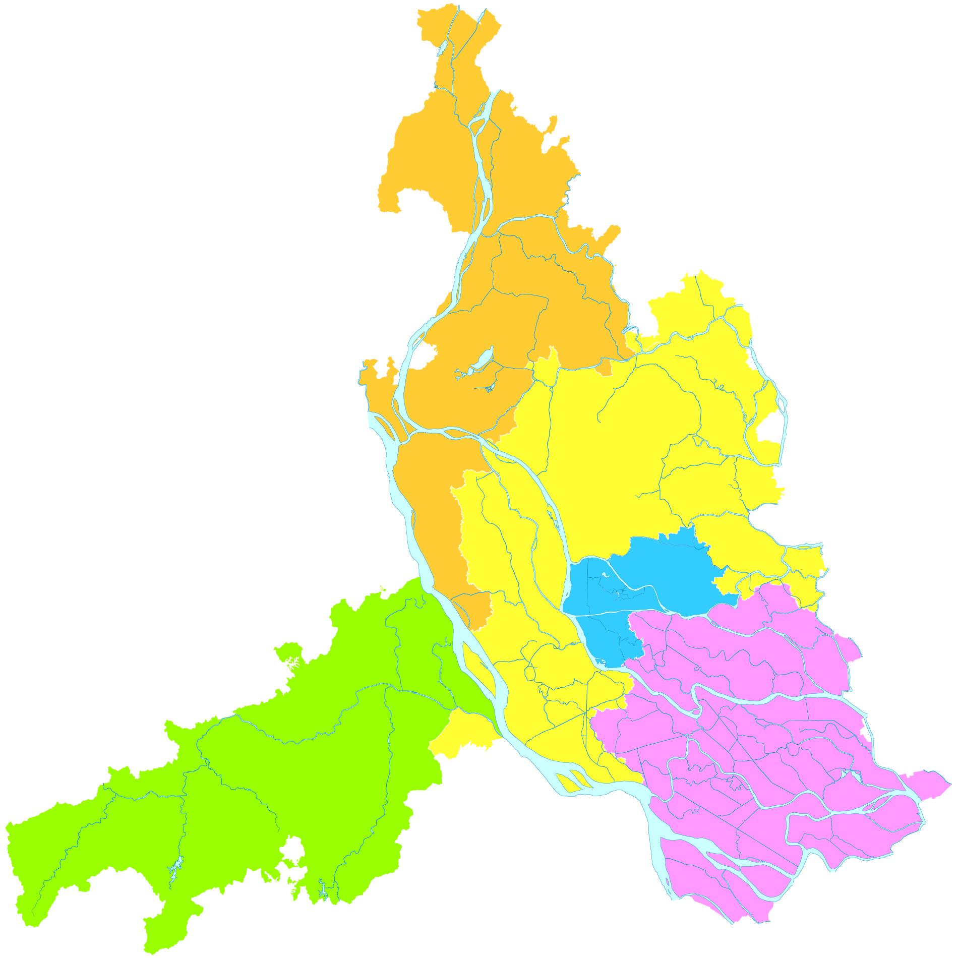 Administrative Division of Foshan City, Guangdong, China